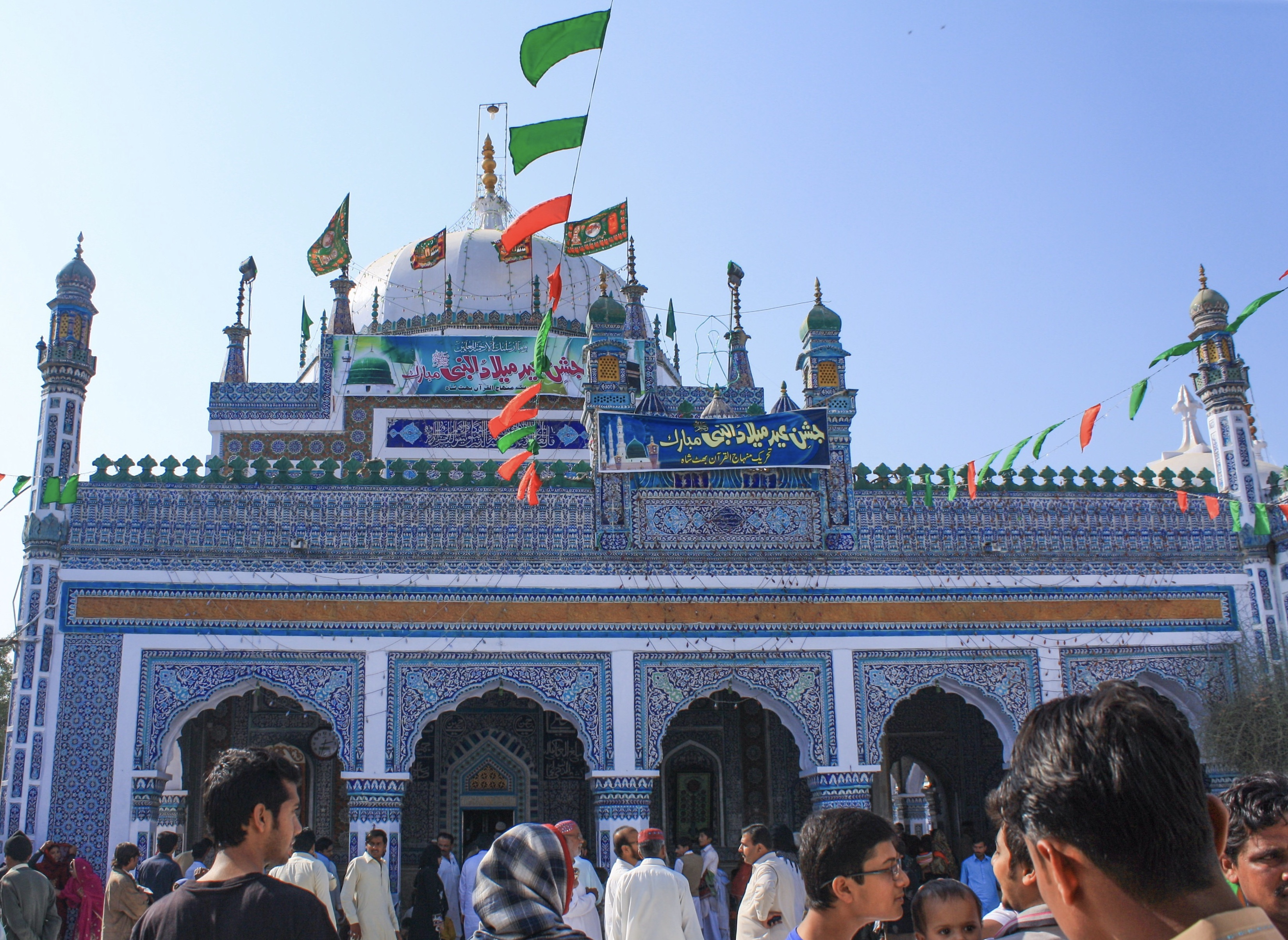 Sindh's famous Sufi poet, Shah Abdul Latif Bhittai's shrine in Bhit Shah